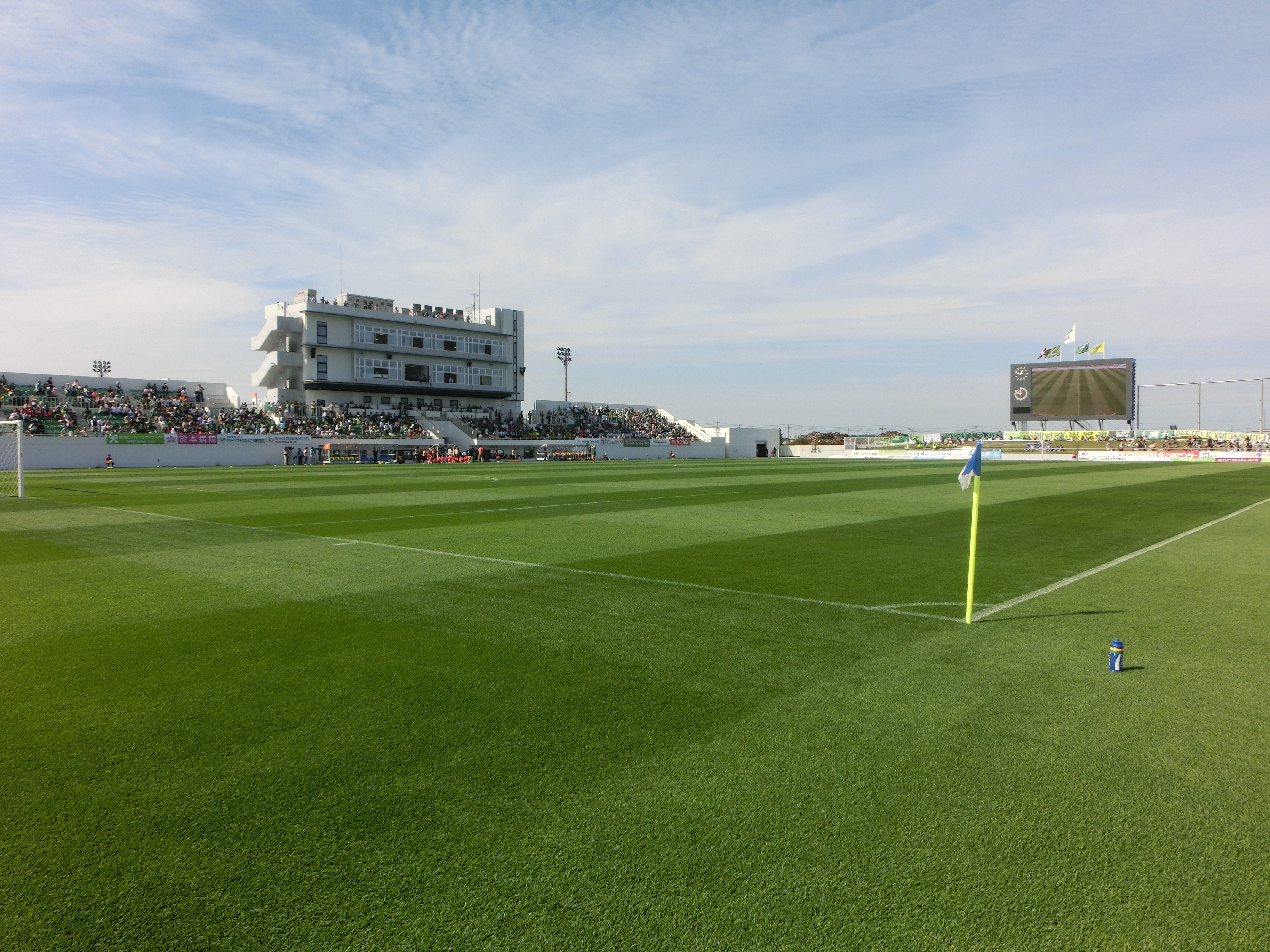 Natural grass football field of Taga Playground.